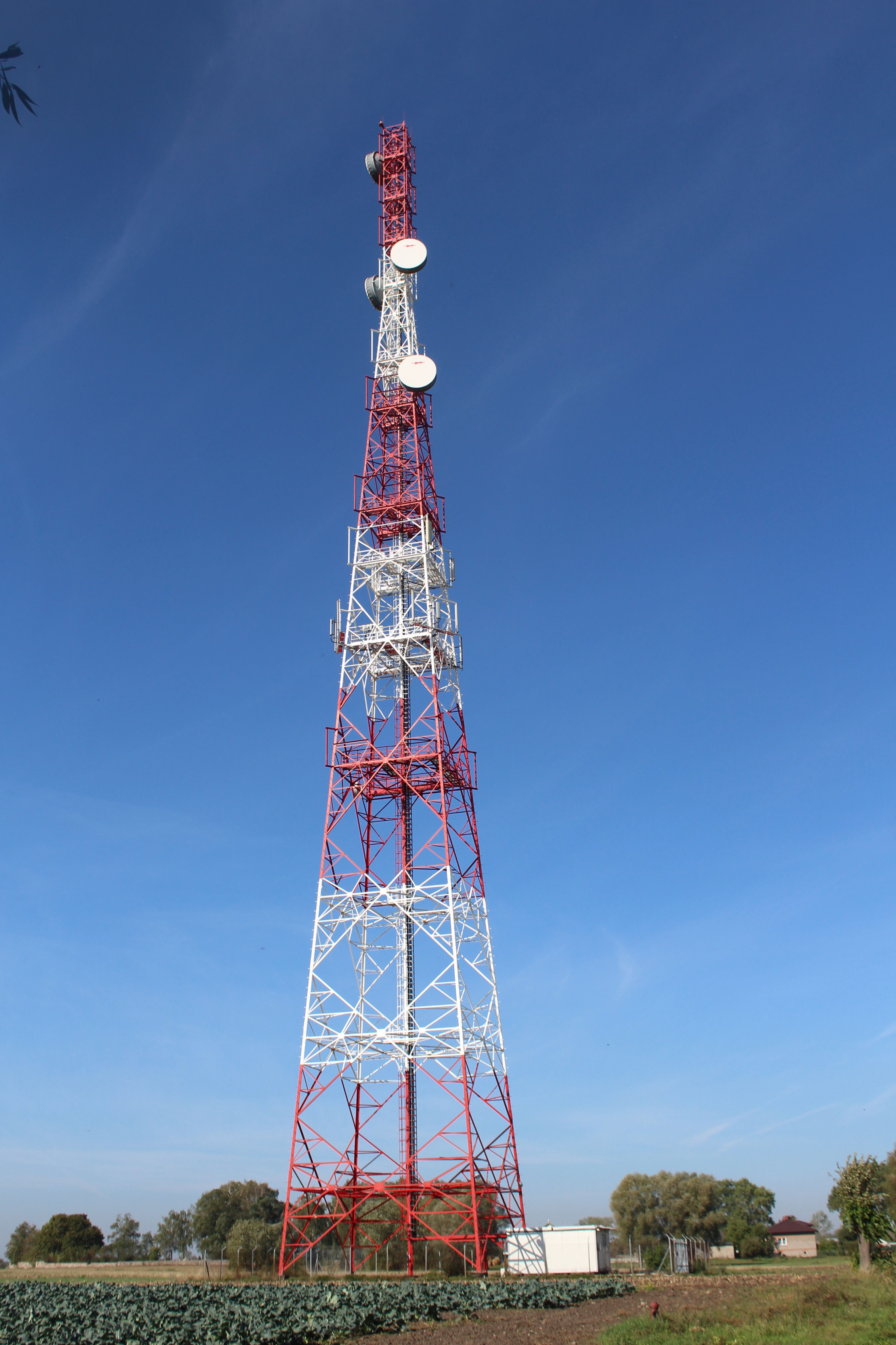 SLR Osmolin